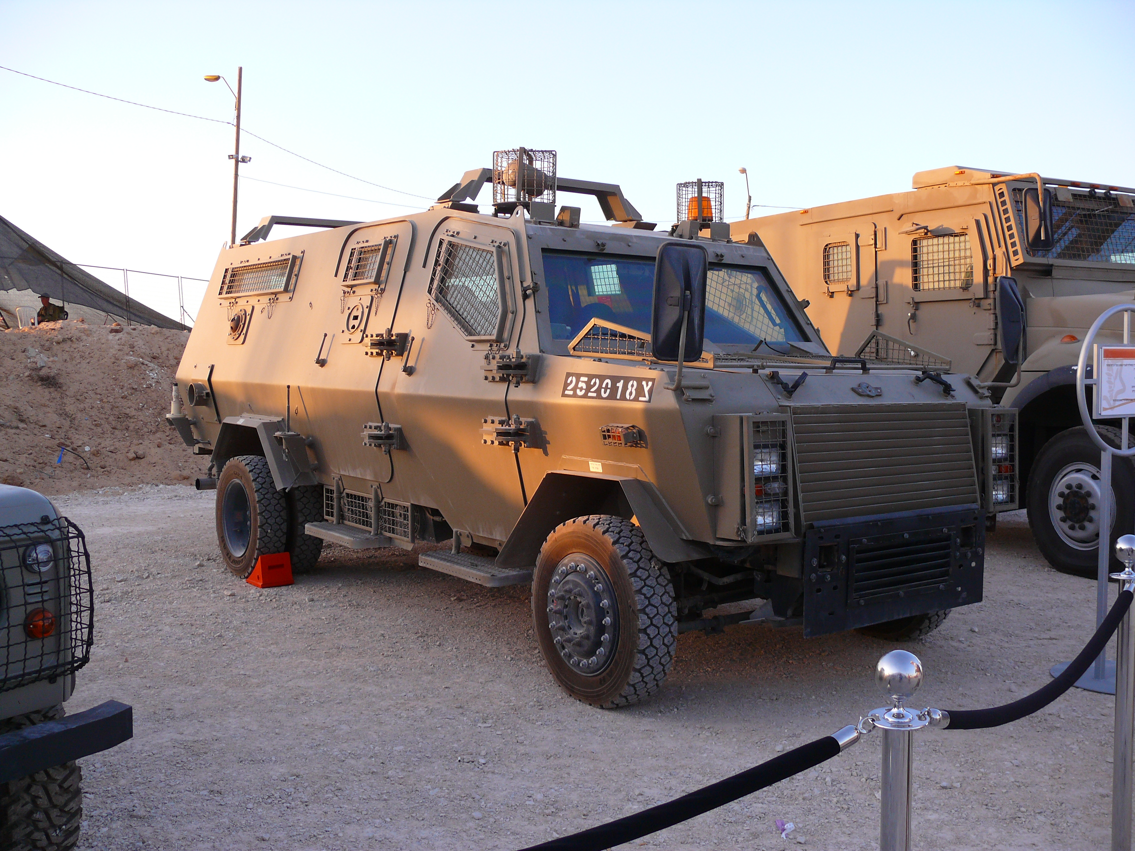 IDF Zeev 4x4 military vehicle